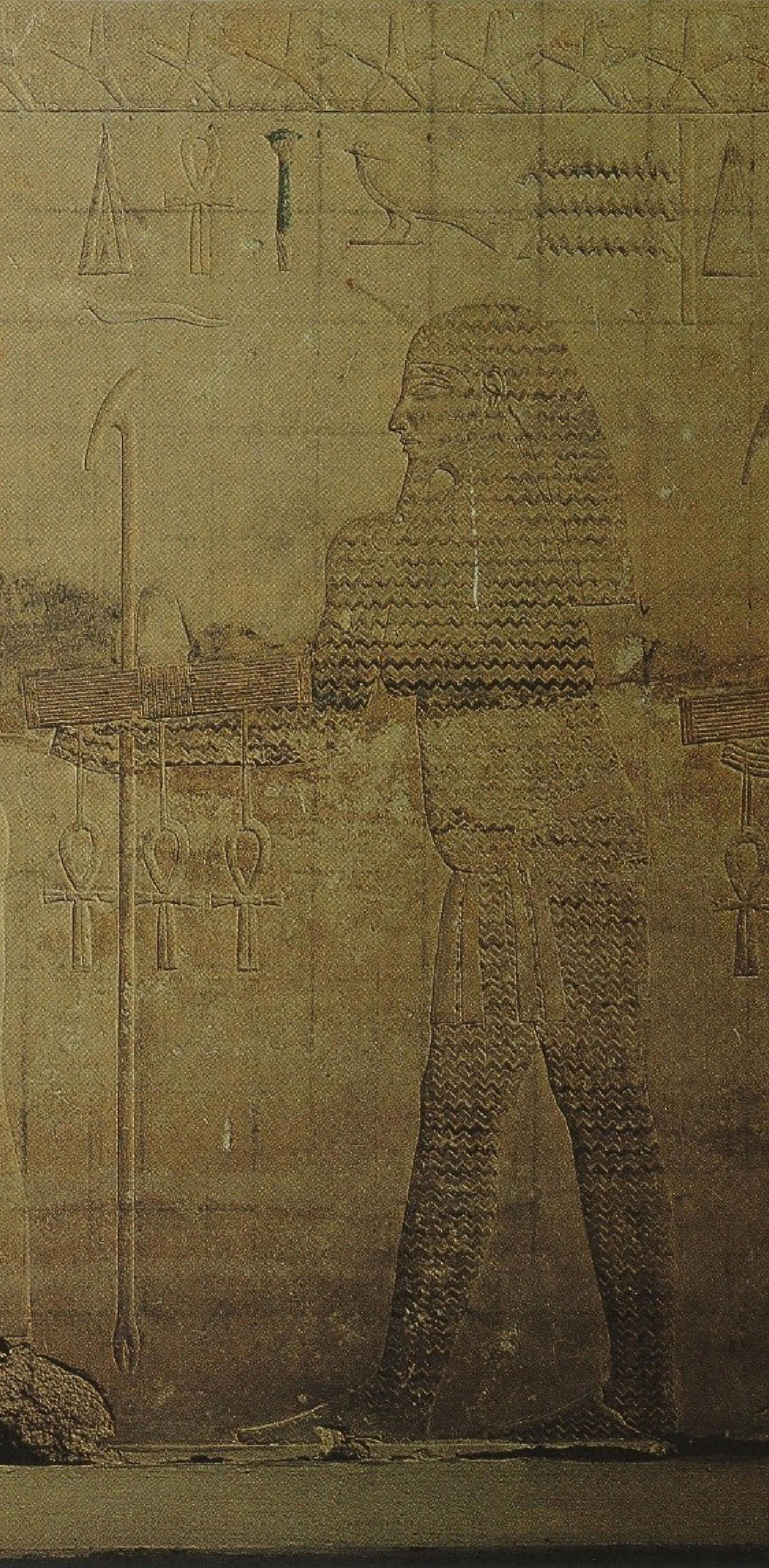 Egyptian god Wadj-wer (or Waz-wer), fertility & Mediterranean Sea god, from Sahura temple in Abuseer.